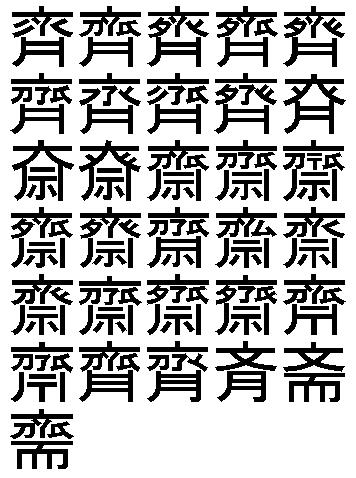 variants the first syllable Sai of the family name Saitō (斉藤)